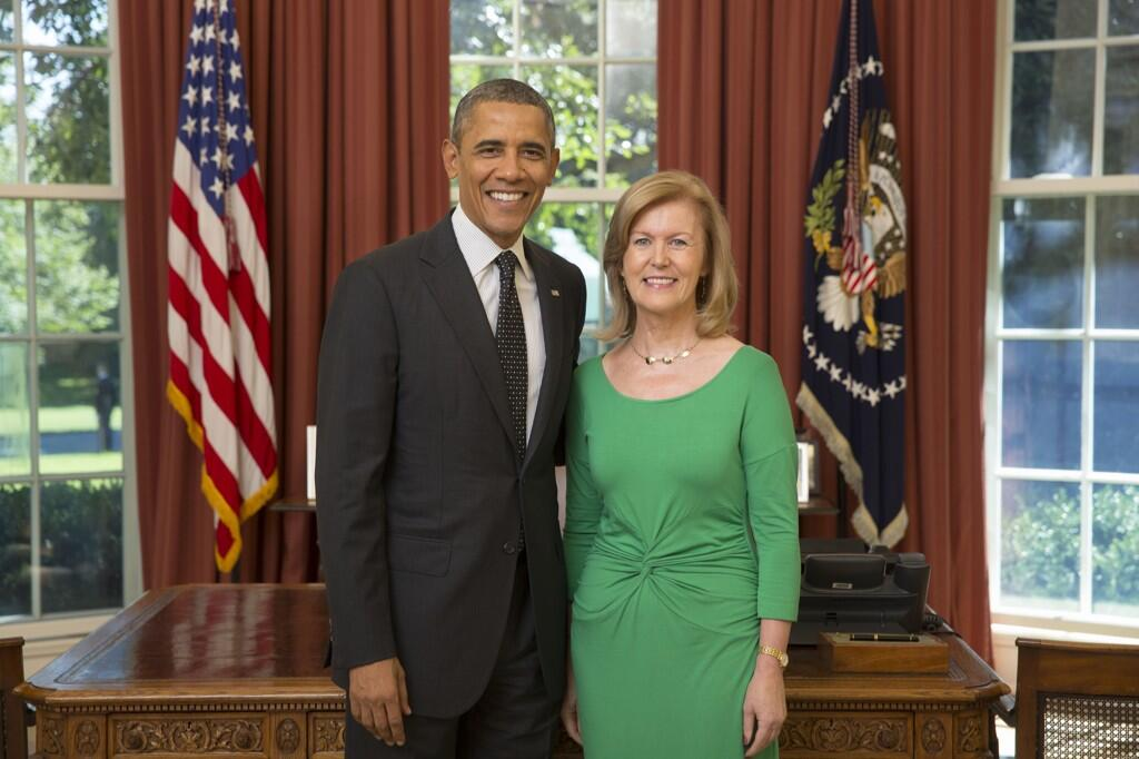 President of the United States, Barack Obama, with newly-appointed Irish Ambassador to the United States, Anne Anderson, in the Oval Office following the Ambassador Credentialling Ceremony on 17 September 2013. Anderson is Ireland's 17th U.S. ambassador, and the first woman to hold the position.